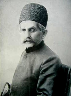 Haj Ali-Gholi Khan, Sardar Asad II, Commander of the Bakhtiari forces, entering the capital city Tehran on July 11, 1909 as part of the revolutionary campaign countering the coup d'état of Mohammad Ali Shah Qajar.